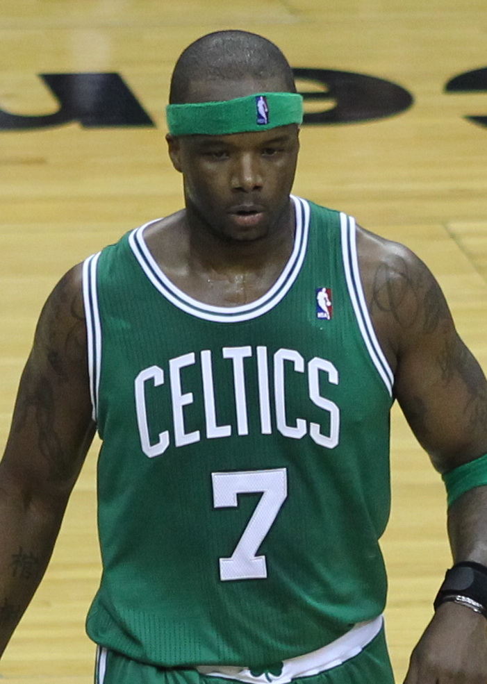 Boston Celtics v/s Washington Wizards April 11, 2011